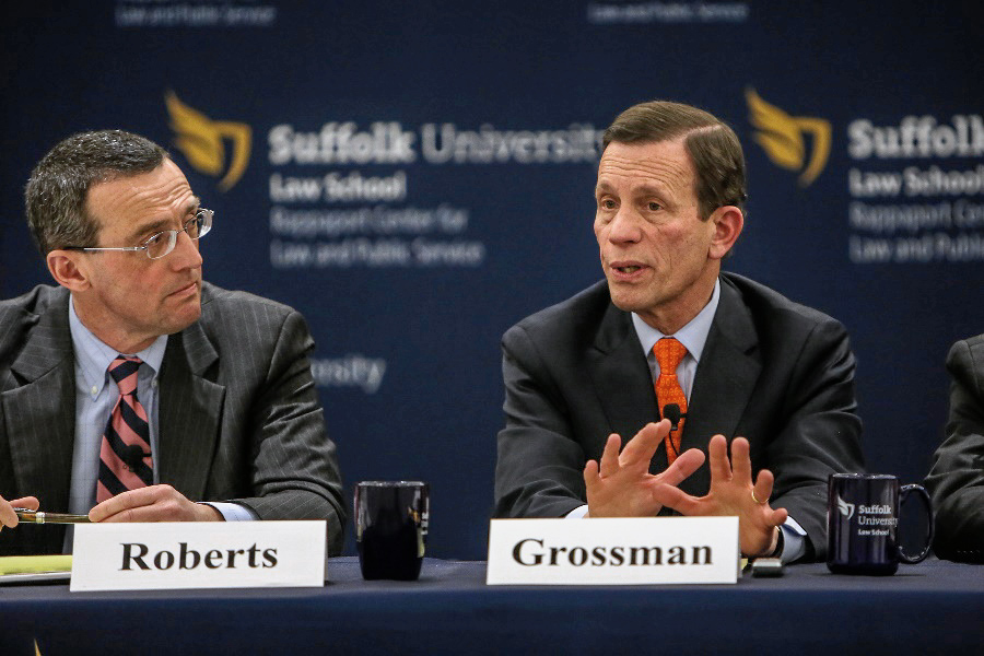 Massachusetts Treasurer Steve Grossman talking about his plans if he is elected governor at the Rappaport Center for Law and Public Service at Suffolk Law School on Jan. 30, 2014.